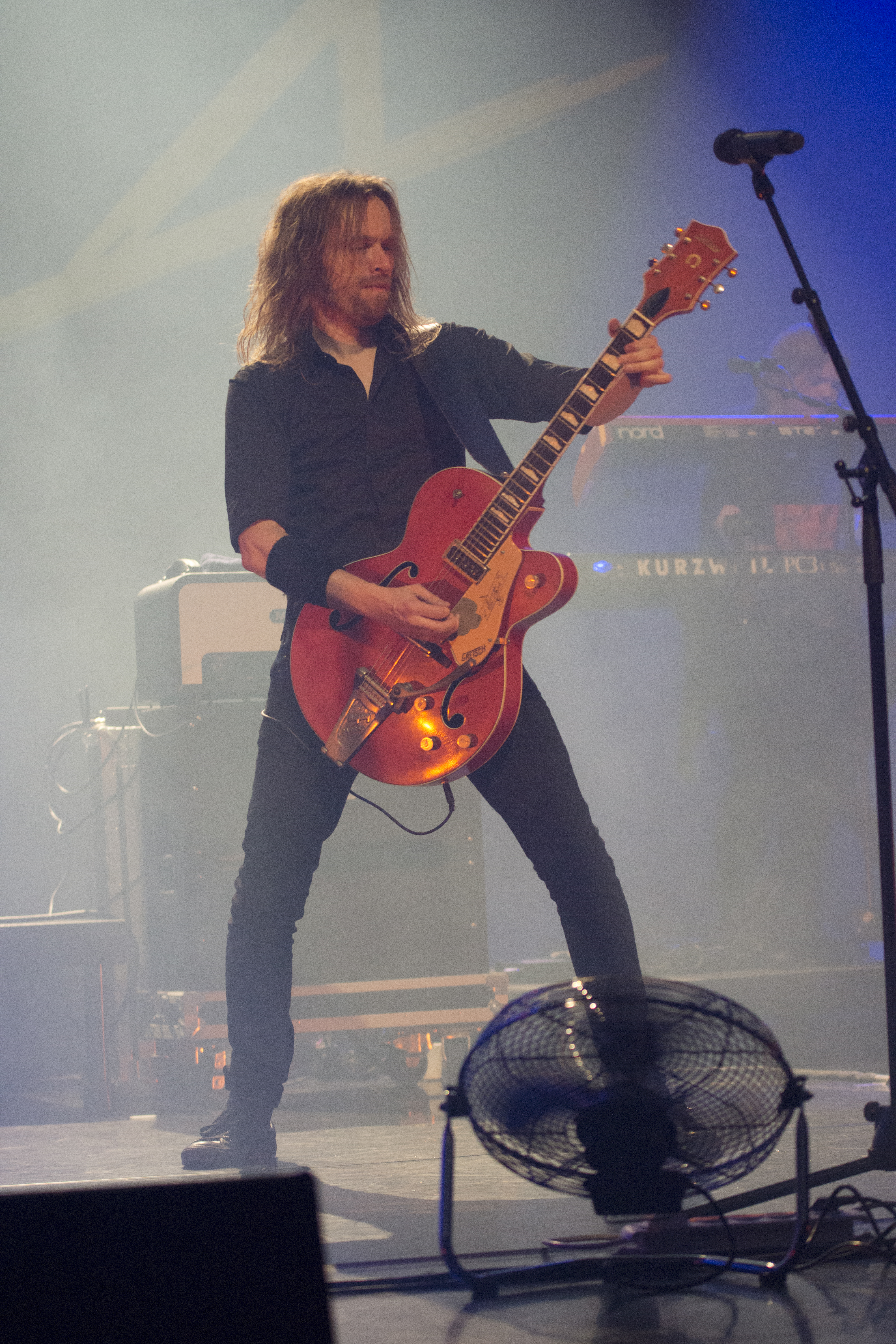 Anssi Kela and his band performing at Espoo's Sellosali on September 18, 2015